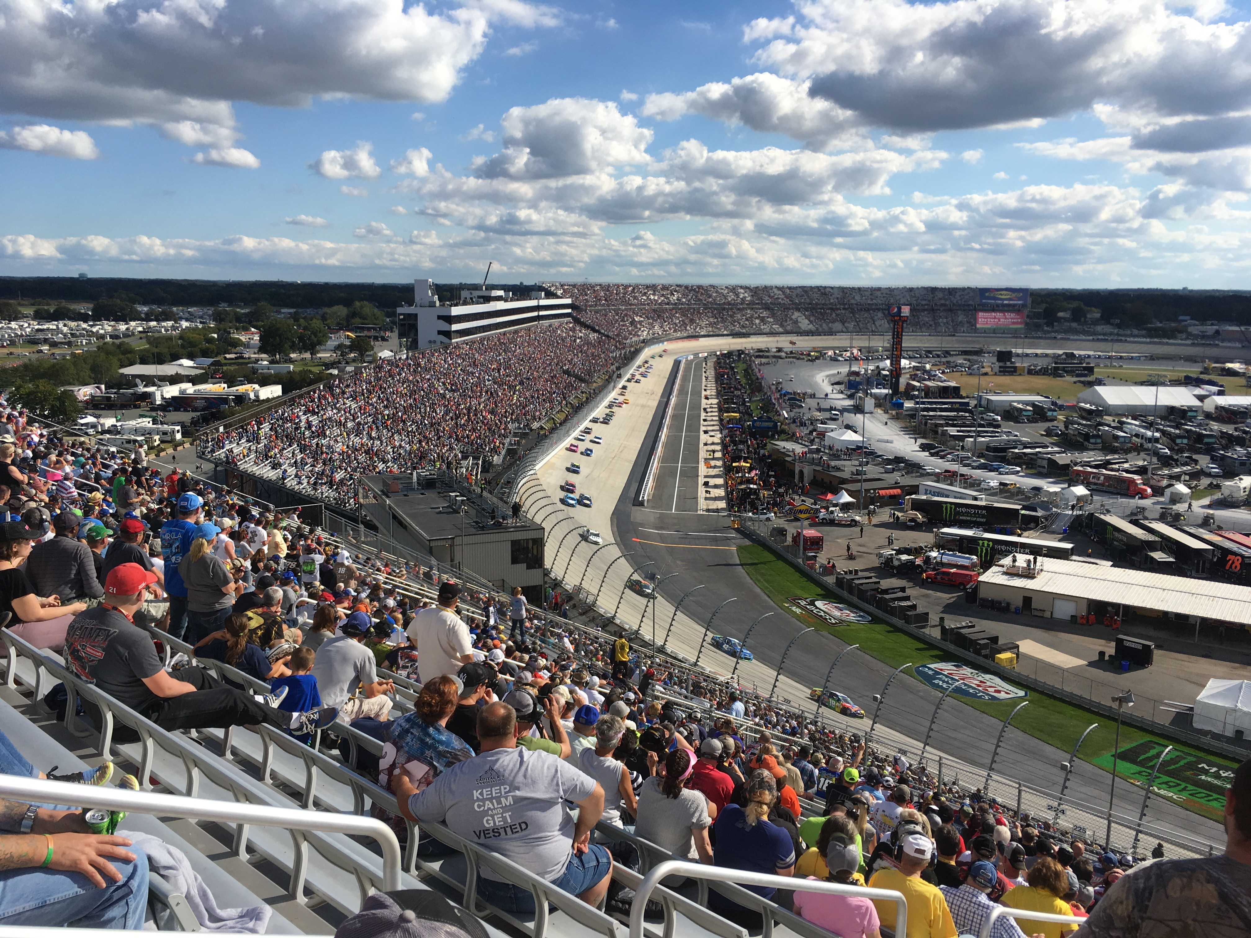 The 2017 Apache Warrior 400 at Dover International Speedway viewed from turn 1, with eventual race winner Kyle Busch (#18) leading Kyle Larson (#42) and the rest of the field at the beginning of stage 2.